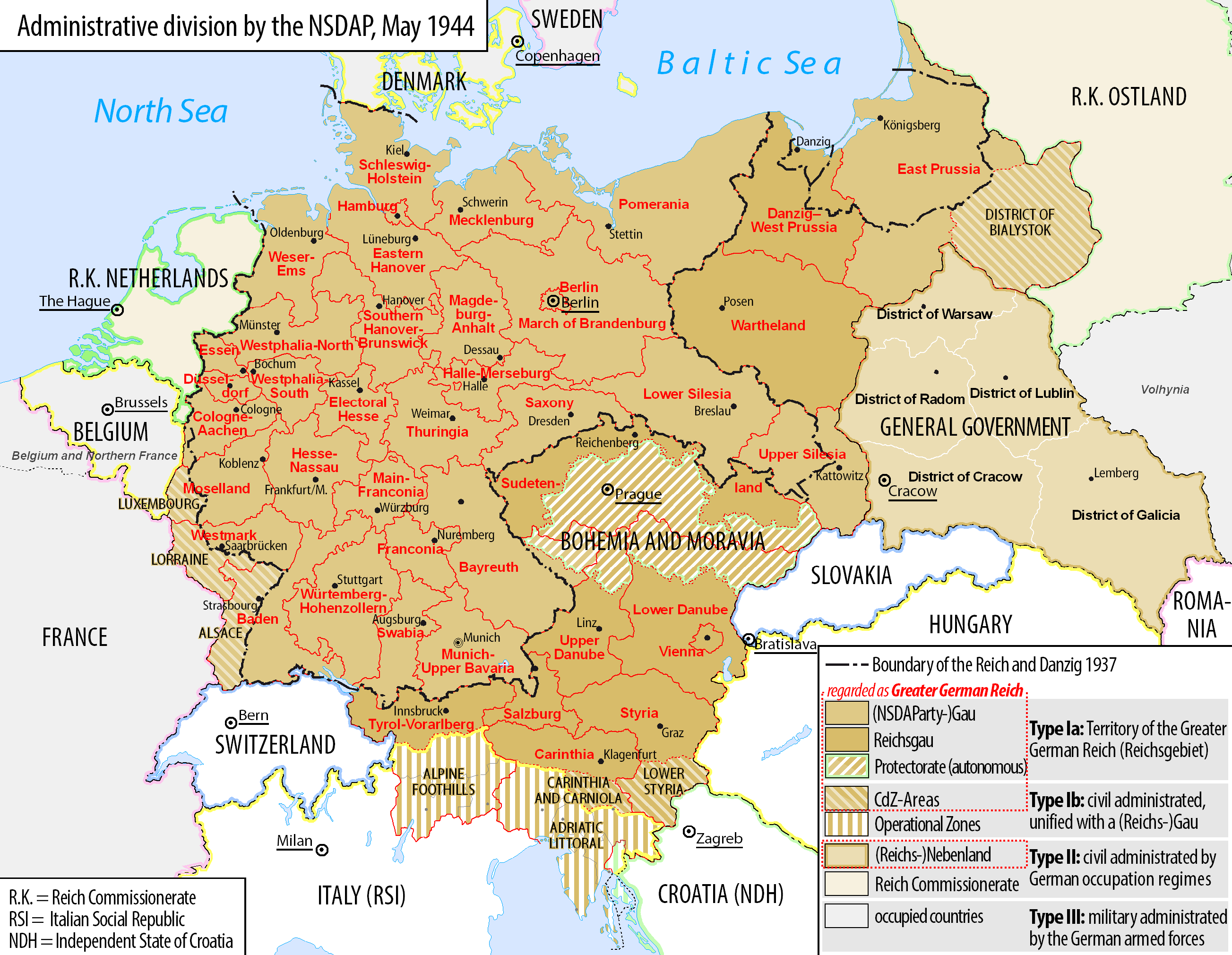 Map of the administrative division of the Greater German Reich (»Großdeutsches Reich«/»Großdeutschland«/"Greater German Empire"/"Greater Germany") by the NSDAP 1944 (in English).